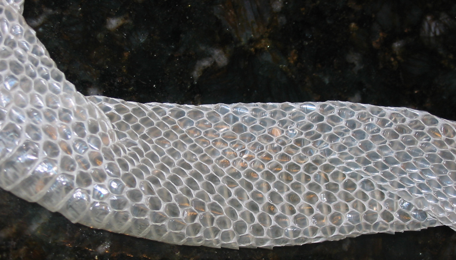 Detail of moulted skin of an Albino Lampropeltis triangulum nelsoni (Albino Nelson's Milksnake) with 21 rows of scales